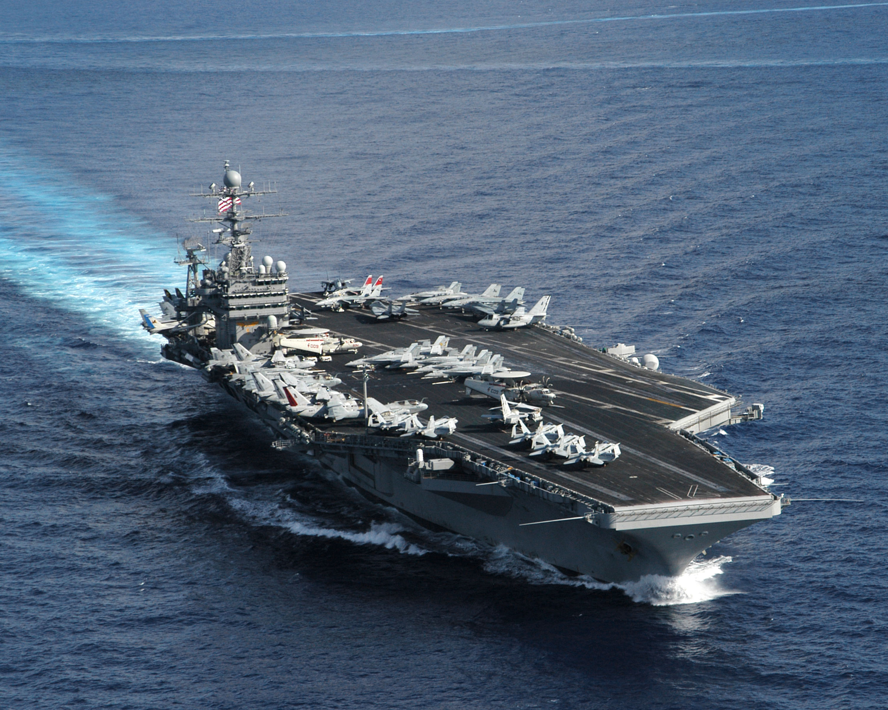 Atlantic Ocean (July 15, 2005) - The Nimitz-class aircraft carrier USS Theodore Roosevelt (CVN 71) underway in the Atlantic Ocean. The Roosevelt Carrier Strike Group is conducting Joint Task Force Exercise (JTFEX). U.S. Navy photo by Photographer's Mate Airman Eben Boothby (RELEASED)